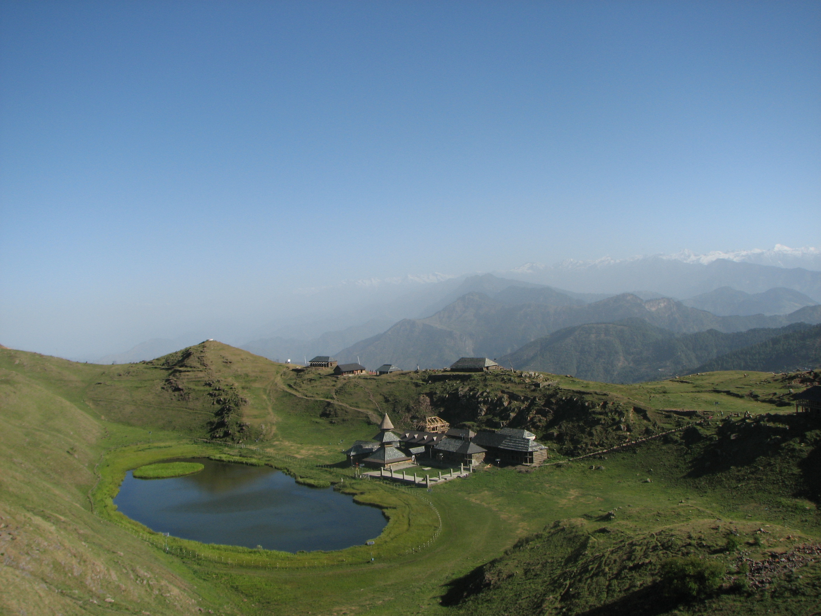 Prashar Lake, District Mandi, Himachal Pradesh, India